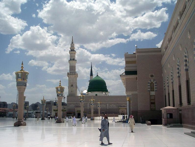 Al-Masjid al-Nabawi, it is the Masjid of Mohammed ﷺ, the prophet of Islam.